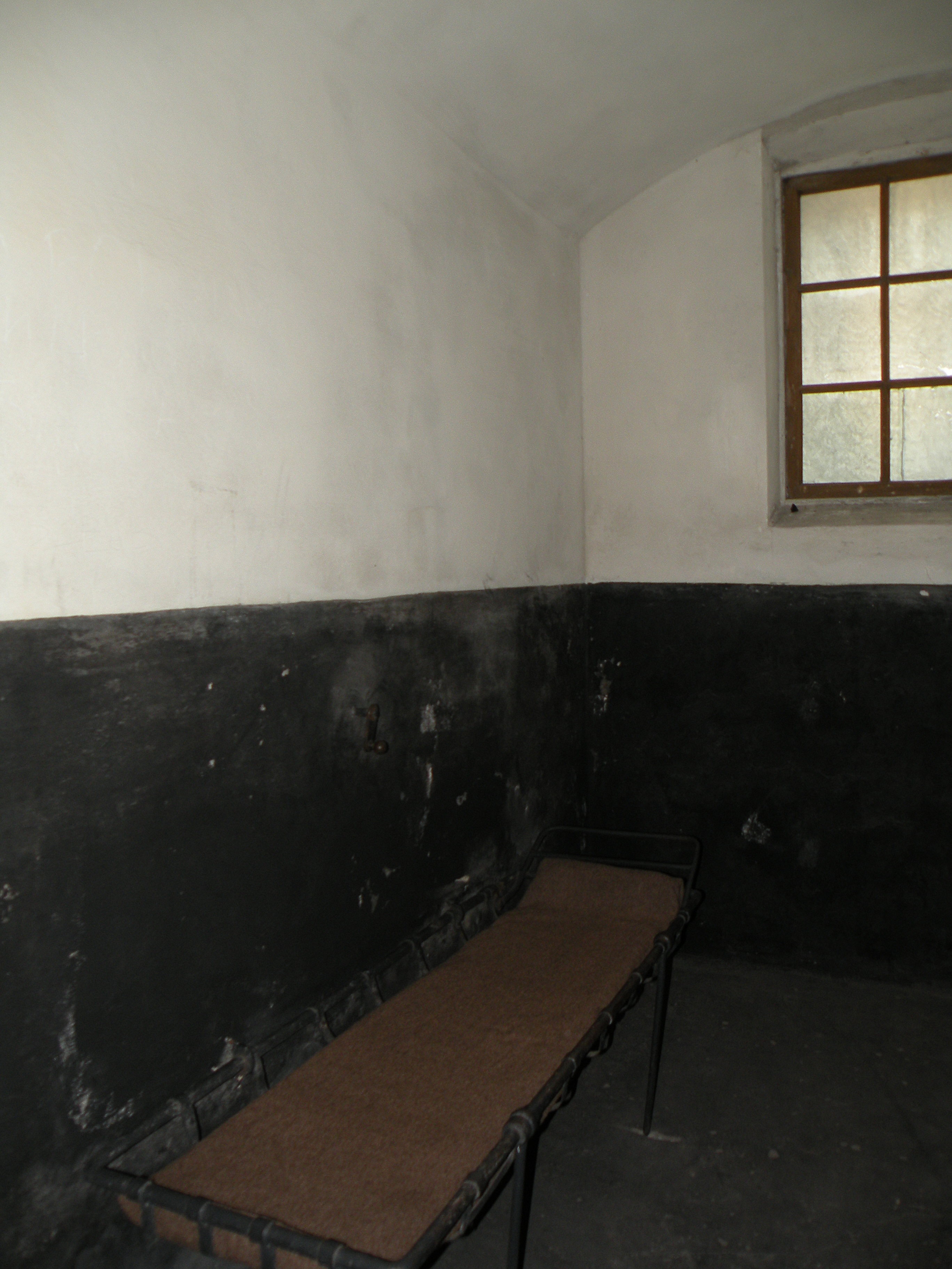 Prison cell of Nikolai Alexandrovich Morozov at Shlisselburg fortress, Leningrad Oblast, Russia.